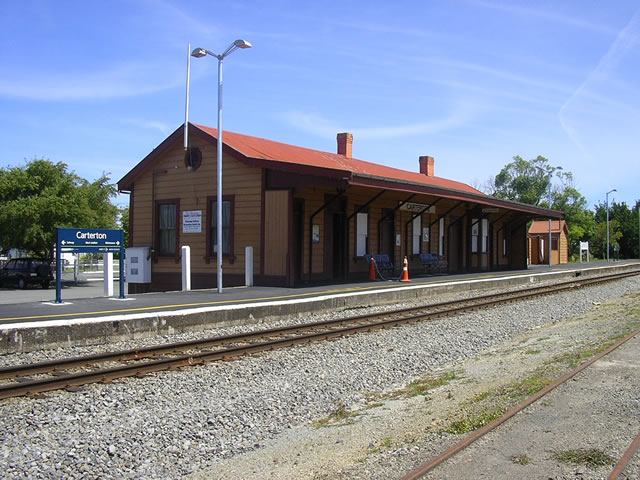 Carterton Railway Station Photographed by Palmeriain